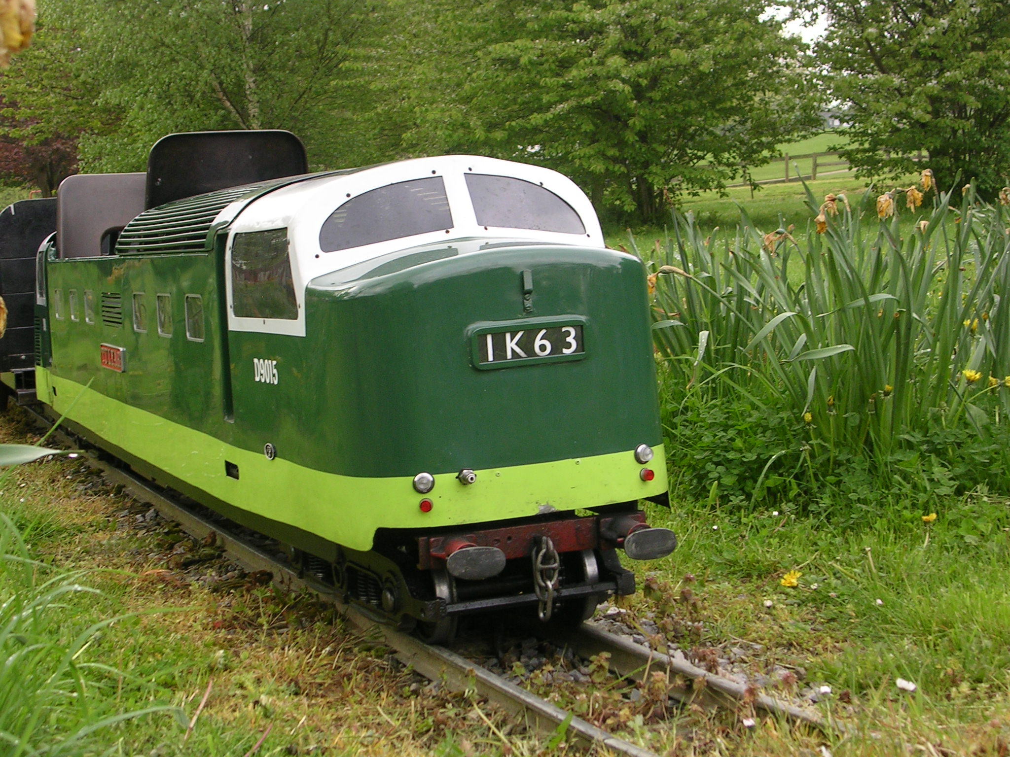 Tyular idling in the next at Swanley New Barn Railway